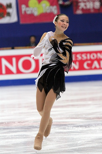 Polina Shelepen at the 2010-2011 Junior Grand Prix of Figure